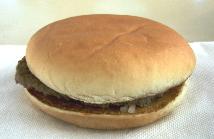 McDonald's Hamburger in Japan